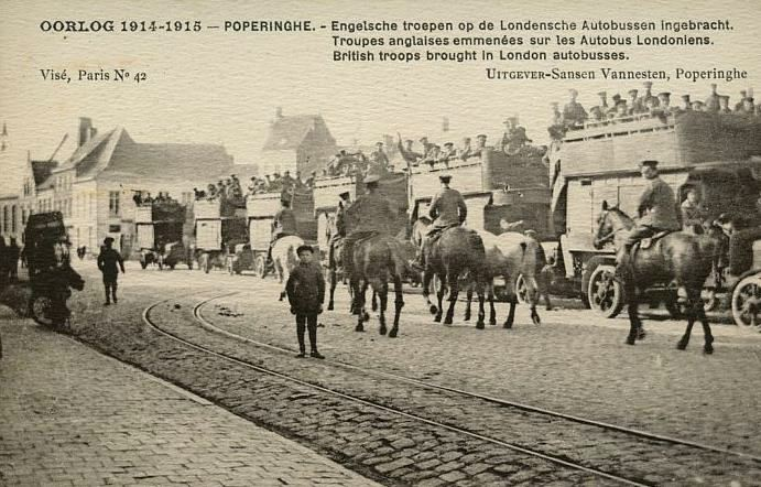 A postcard of troops arriving in Poperinge at the start of World War I